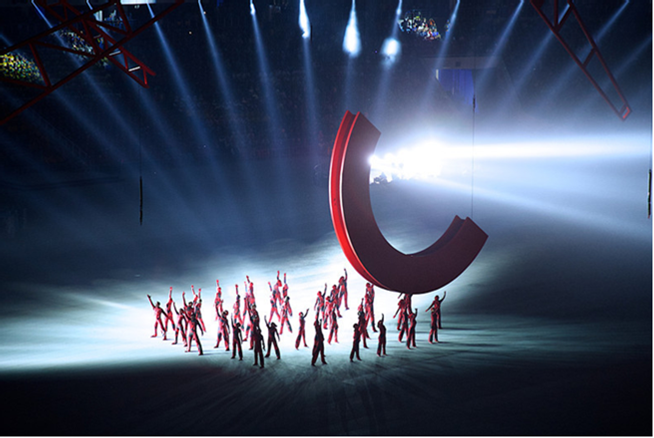 Opening of the 2014 Winter Olympics in Fisht Olympic Stadium, Sochi, Russia.